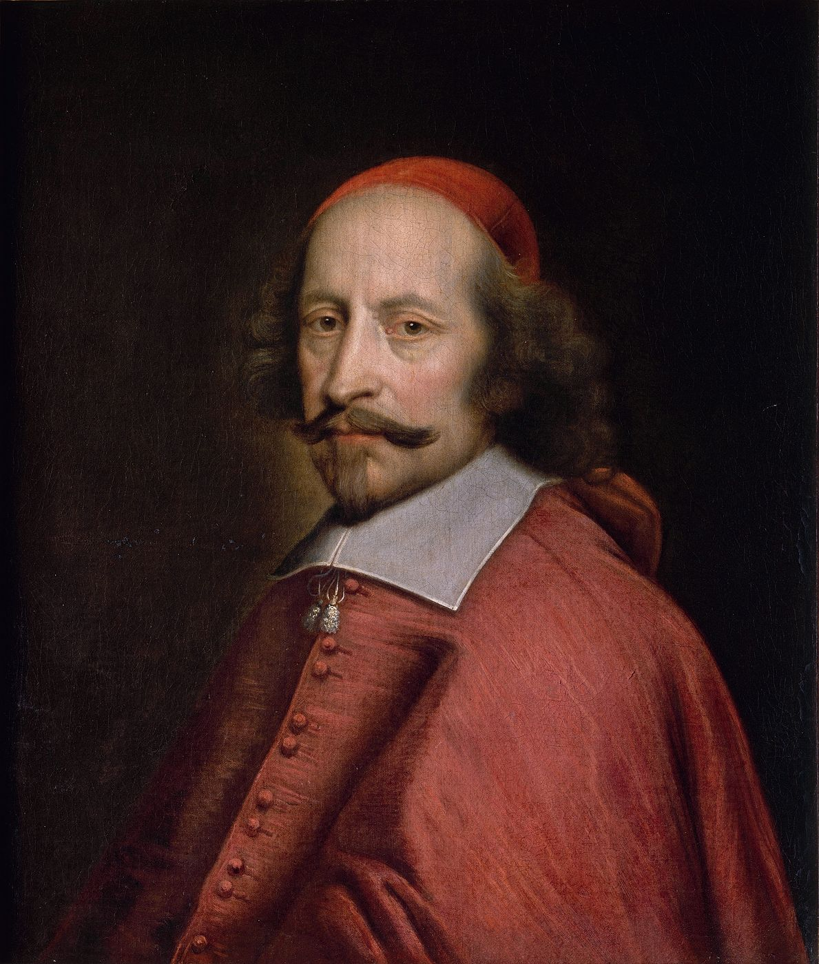 Portrait of Cardinal Jules Mazarin (1602-1661)